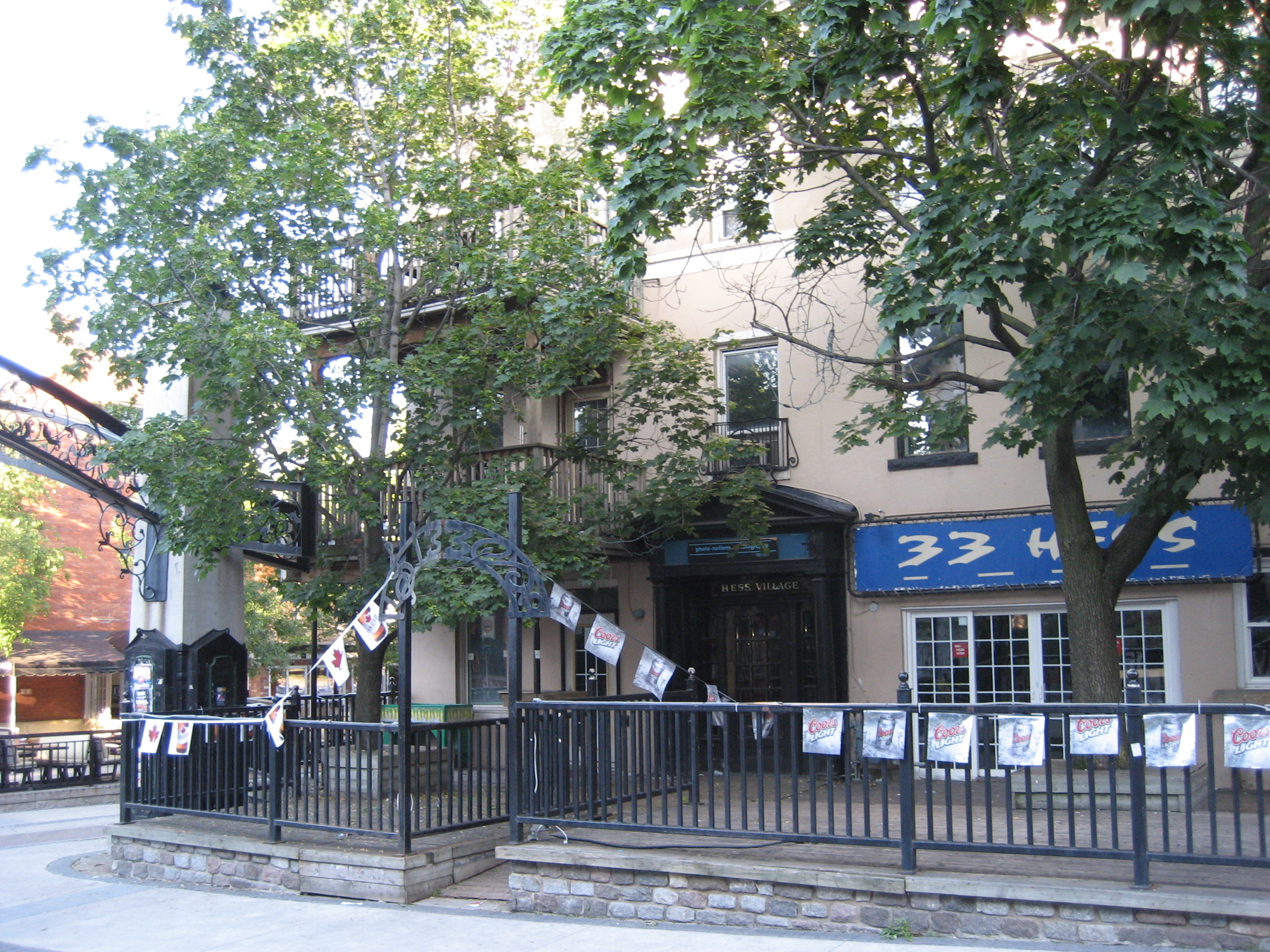 33 Hess, Music venue, Hess Village, Hamilton, Canada.